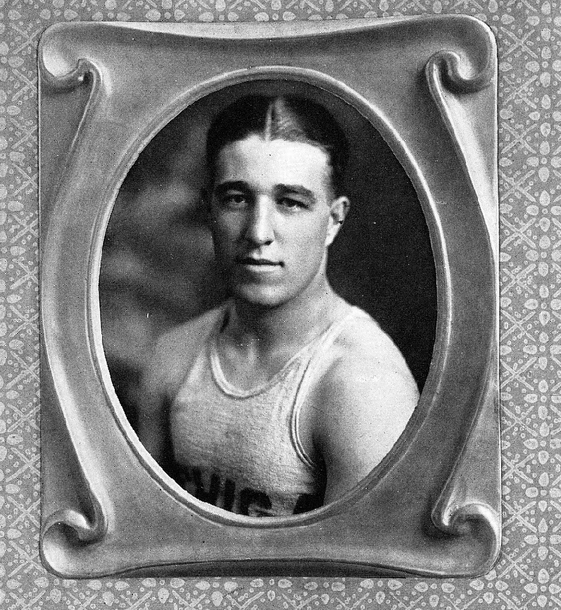 Photograph of Arthur Karpus